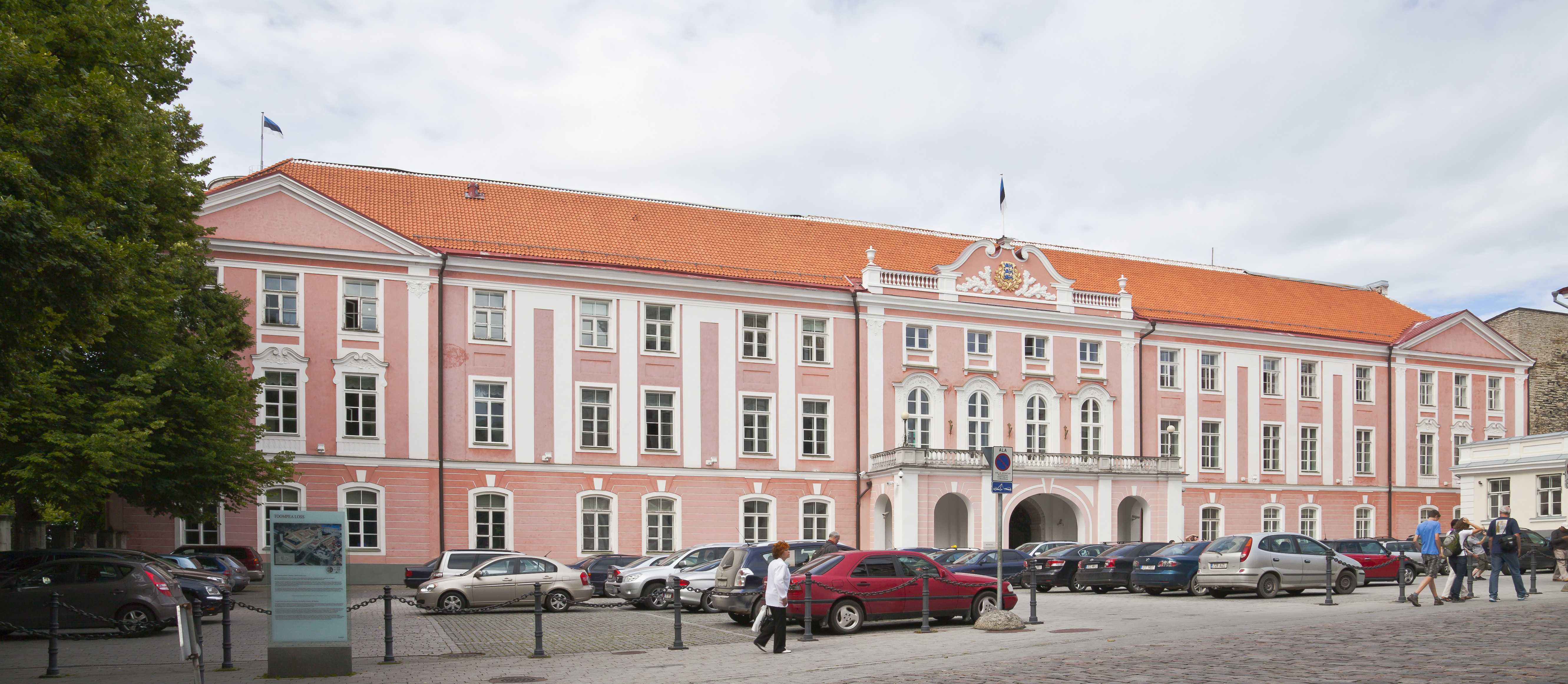 Estonian Government, Tallinn, Estonia